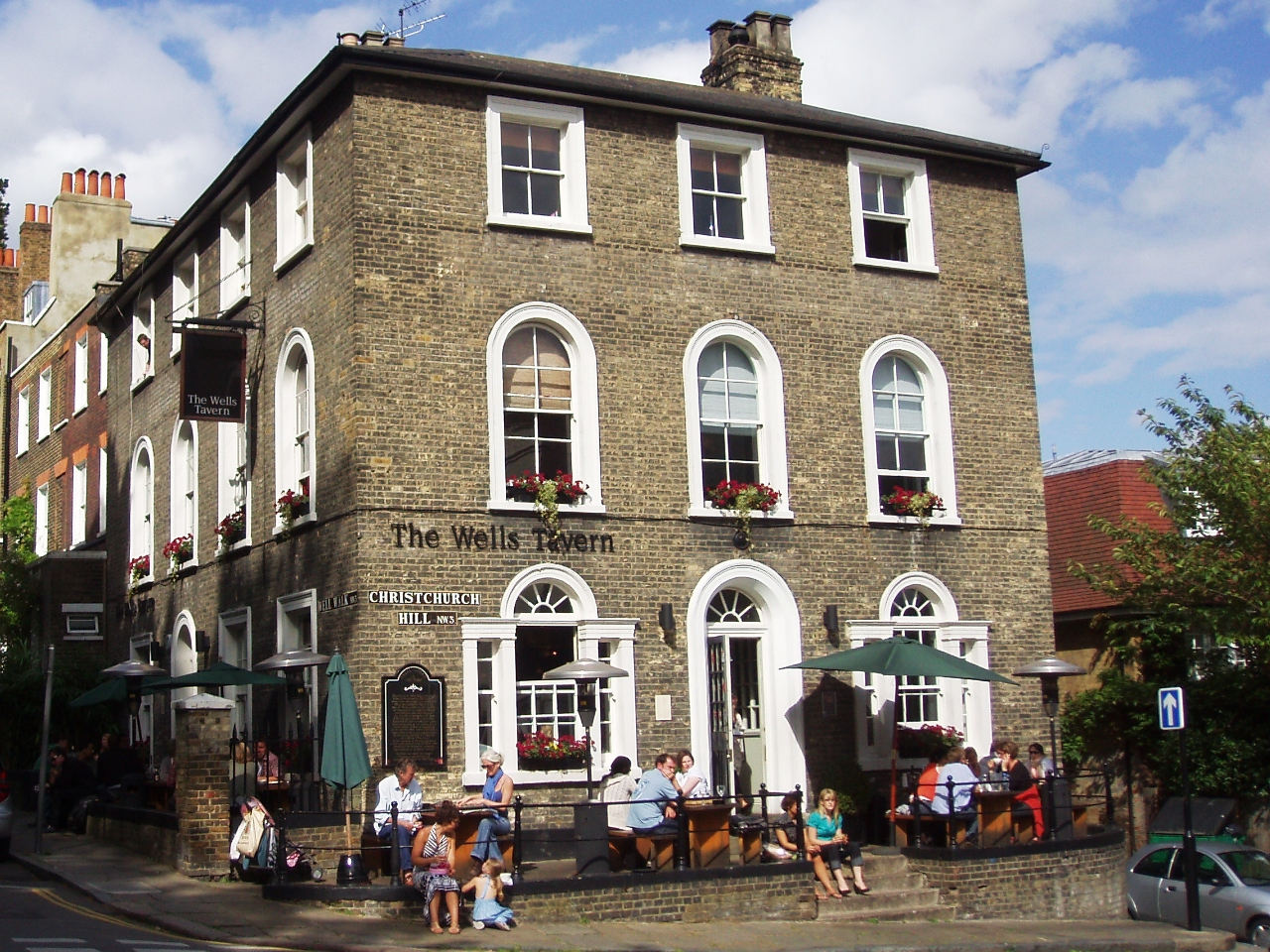 Nice-looking gastropub between Hampstead station and the Heath. (It was in the Good Beer Guide as the Wells Hotel.) Address: 30 Well Walk. Former Name(s): The Wells Hotel; The Green Man (on the same site). Links: Fancyapint Pubs Galore Beer in the Evening Dead Pubs (history)